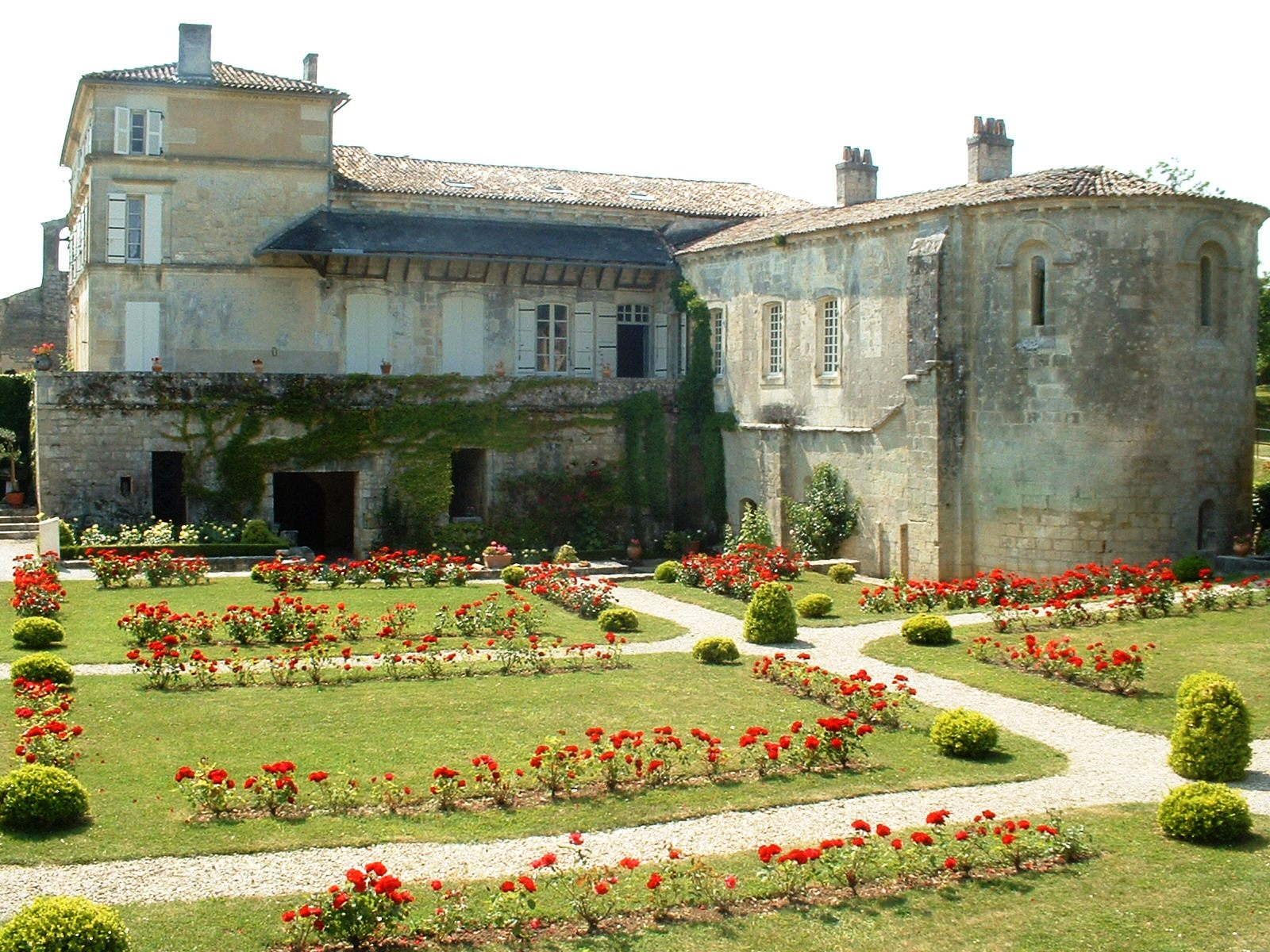 The superposed chapels and the formal garden at the Abbey of Fontdouce, near Saintes in Charente-Maritime (France)